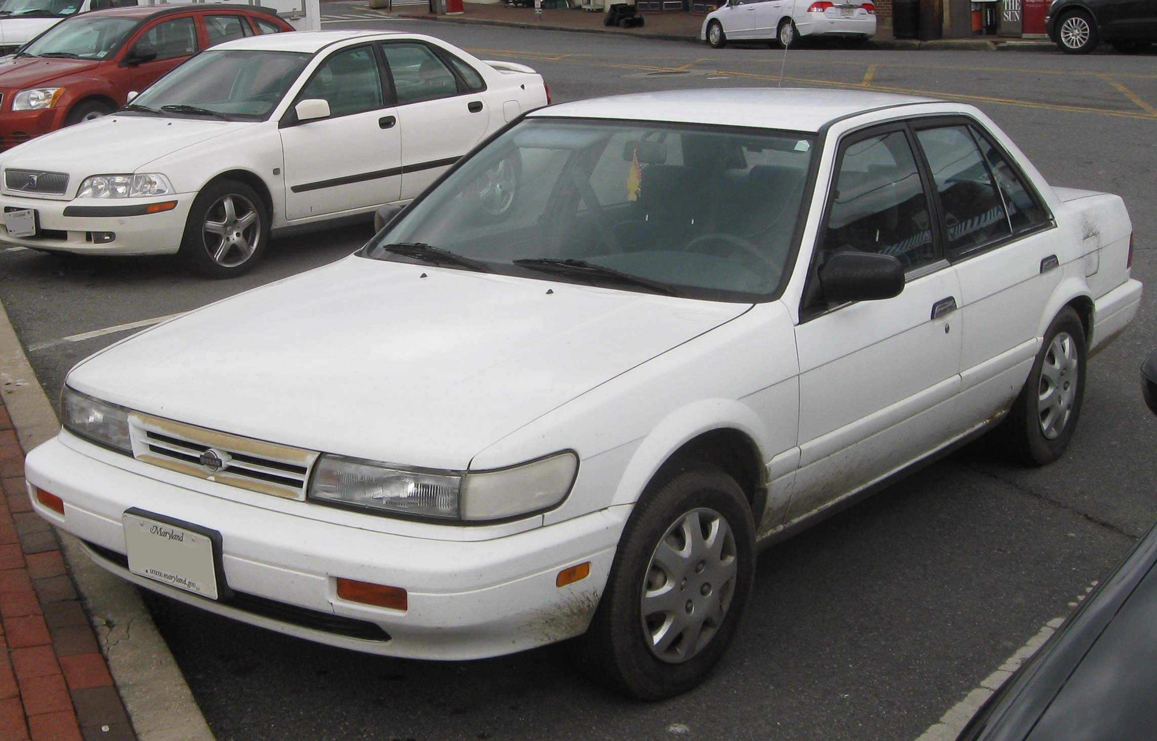 1990-1992 Nissan Stanza photographed in Annapolis, Maryland, USA.